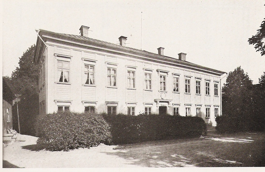 Västmanlands Dala 1st nation house before conversion 1834-1914